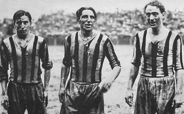 Turin (Italy), Campo Juventus ("Juventus Ground"), May 1, 1932. From left to right: F.B.C. Juventus' footballers Raimundo Orsi, Giovanni Vecchina and Federico Munerati leave the pitch at the end of the home victory versus Bologna S.C. (3-2), Matchday 28 of the Italian League 1931–32 Serie A.